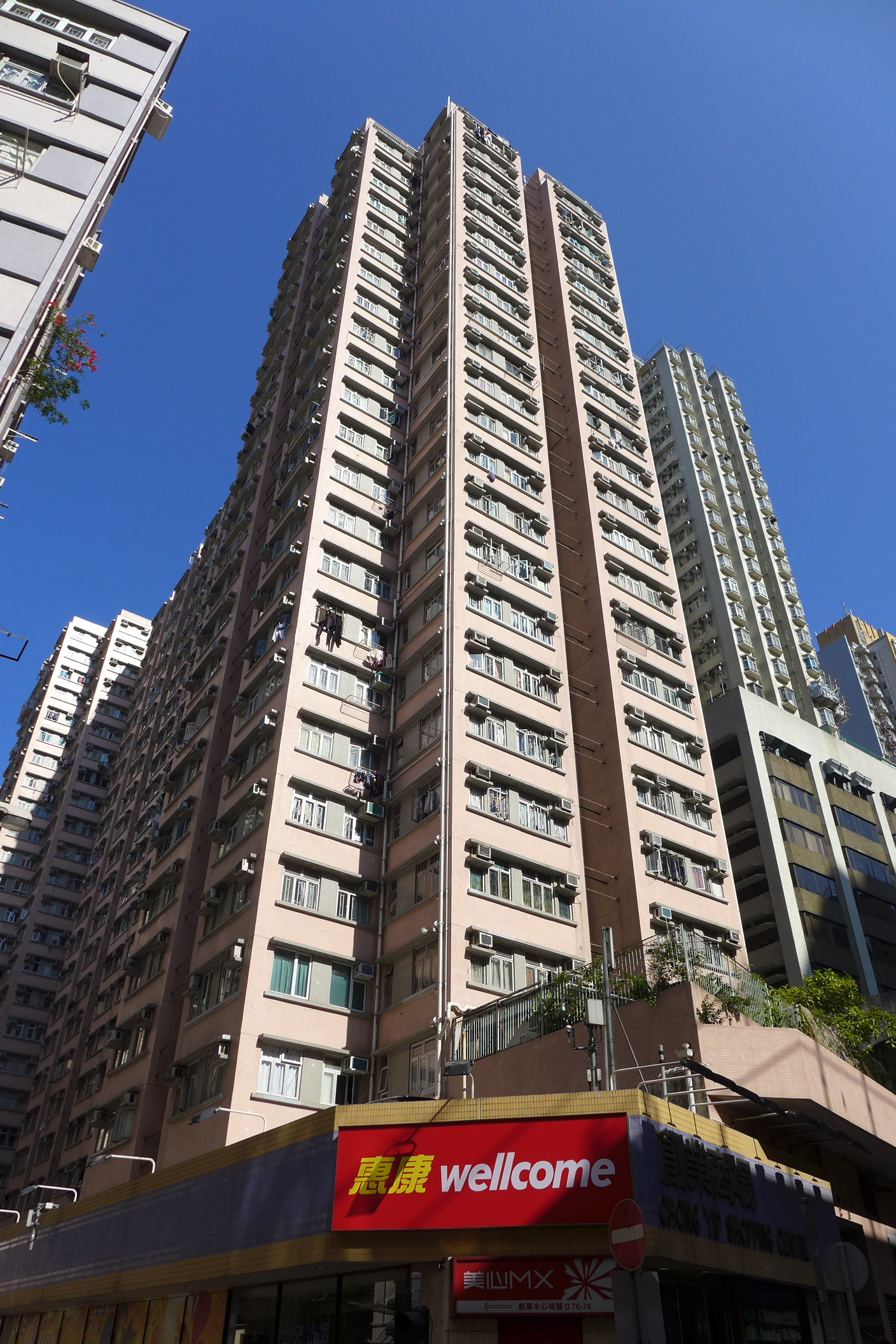 Chong Yip Centre